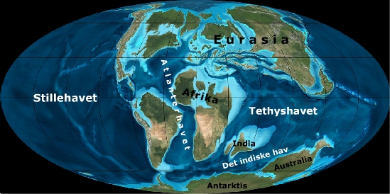 The Tethys Sea closing. World 90 million years ago.